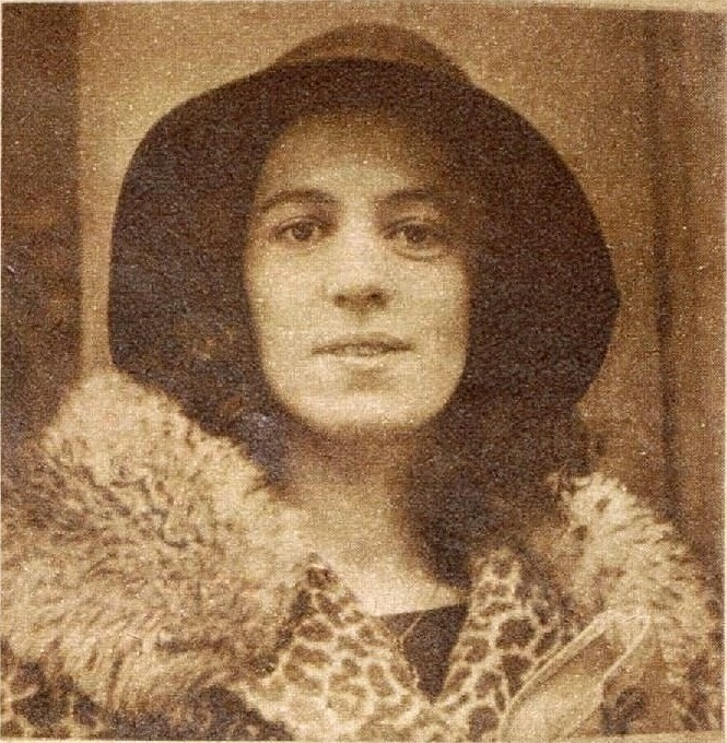 Olga Barényi in Vienna (1931).